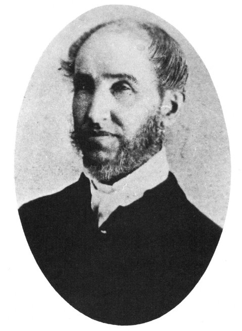 Rev, William Mitchell, 1st Anglican Minister in the Swan River Colony